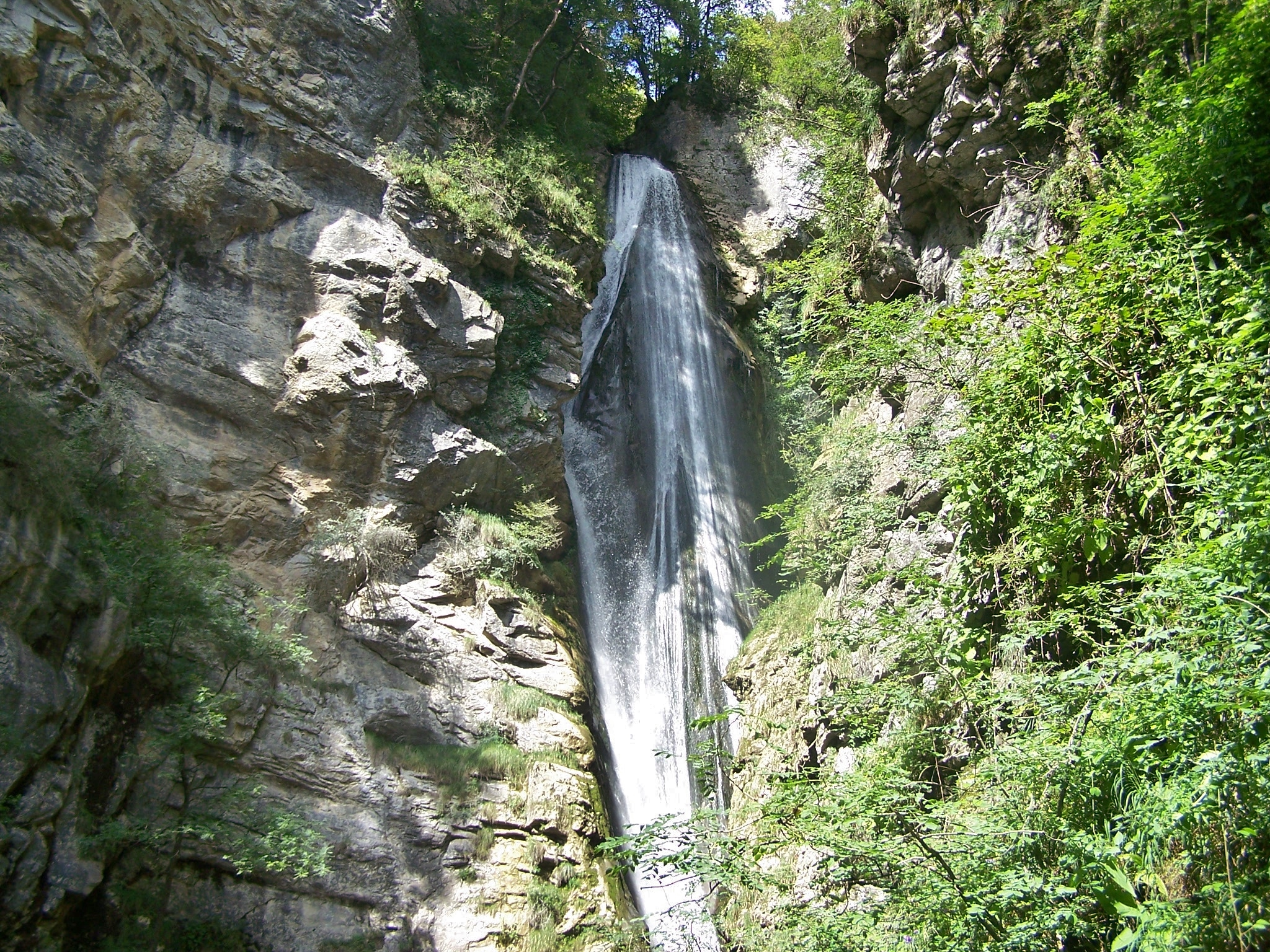 Sight of the cascade de la Doria waterfall (river Doria) in Saint-Jean-d'Arvey near Chambéry in Savoie, France.